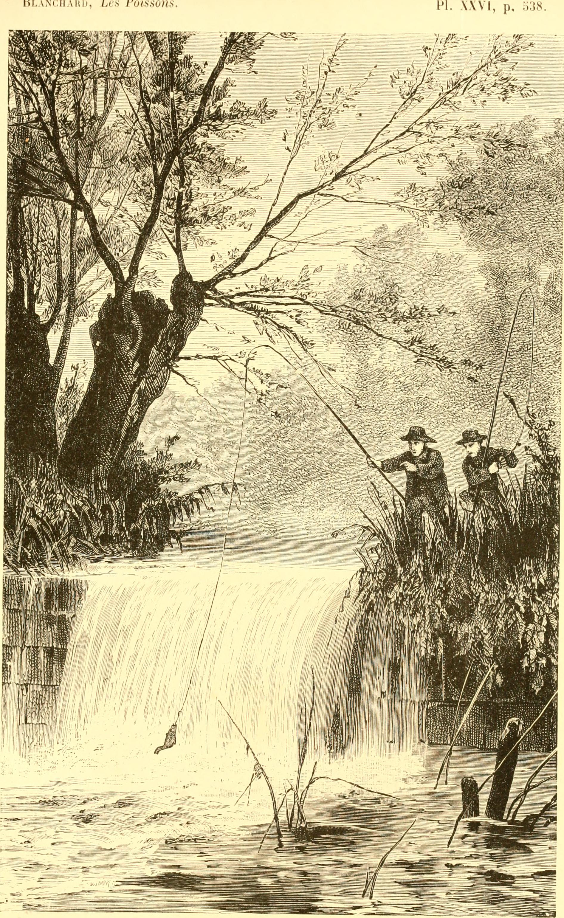 Title: Les poissons des eaux douces de la France; anatomie--physiologie--description des espèces--moeurs--instincts--industrie--commerce--resources alimentaires--pisciculture--législation concernant la pêche Year: 1880 (1880s) Authors: Blanchard, Emile, 1819-1900 Subjects: Fishes Fisheries Publisher: Paris, J. B. Baillière et fils Text Appearing Before Image: jtroduirases bons effets dans dautres circonstances de la vie. Le talent de lobservation, ccst-tà-dire la faculté de voir toutce que lon regarde, de comprendre tout ce que lon voif, estpeut-être la faculté la plus haute de rintelligonce humaine.Cest le talent dobservation qui fait le général darmée, le grandcapitaine, voyant lensemble et les détails, comprenant la va-lent* des situations et la portée de tous les incidents. Cest letalent de lobservation qui crée le politique sagace, habile hdiscerner les passions, les faiblesses humaines. Cest, par-dessustout, le talent dobservation, qui fait le penseur, découvrant ausein de la nature, comment saccomplissent des phénomènes,.oii la raison humaine arrive àla dernière limite possible de souchamp dexploration. Si un talent, lorsquil est élevé à sa plus haute puissance, de-vient capaljle des plus grandes choses , il faut estimer que cetalent, même réduit ;i de faibles proportions, est encore une Hlanchaiui, Les luissoufy Text Appearing After Image: Paris, J.-H. liuillièie tt Fils, édil. (.orbcil, r.rété, imp. I.A PECHE A LA LIGNE APPUKNANT A R K T o X N A I T U K, IjaIHKS LA N A T C 11 K D K lkAC,uaPRKS la COXTfCXTCKi; DKS RIVKS, SI lkNDKOIT K S T F R K (J T K N T K PAR CKRTAINHS KSPKCES.